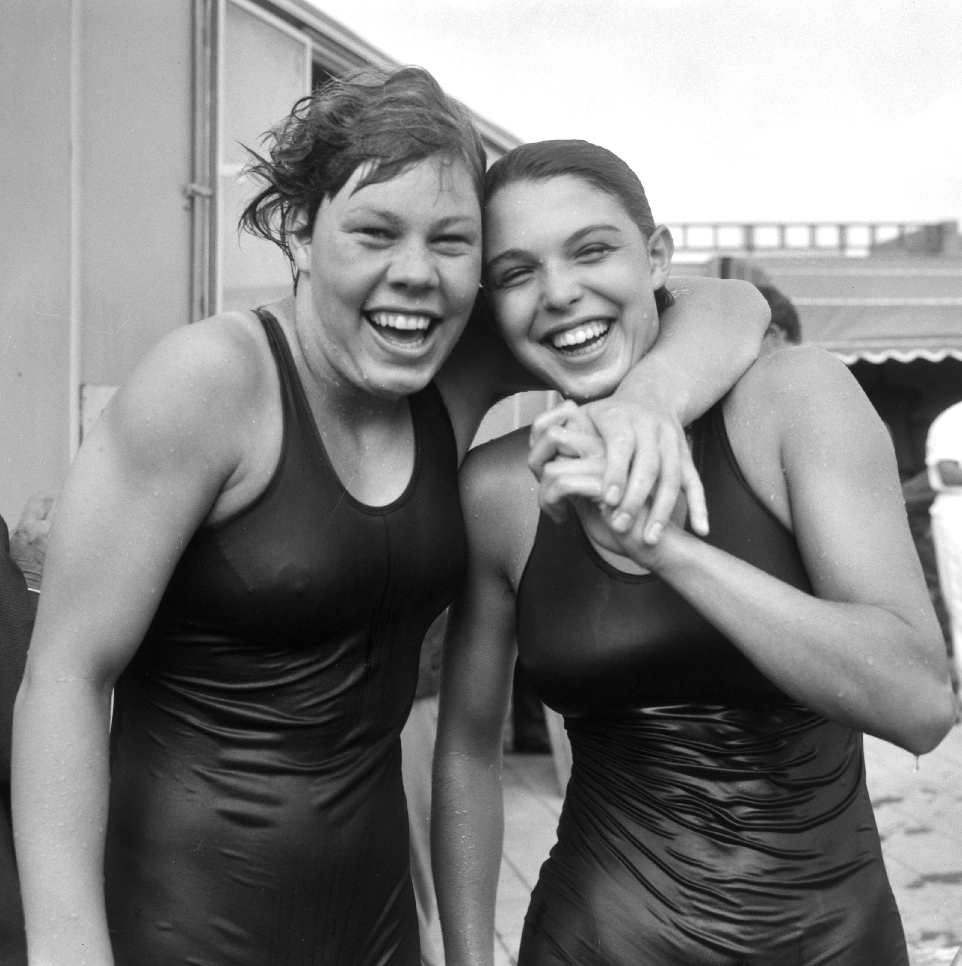 Klenie Bimolt (left) and Laura Schiezzari